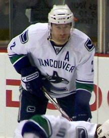 Vancouver Canucks defenceman Mattias Ohlund in a game against the Phoenix Coyotes on March 21, 2009.